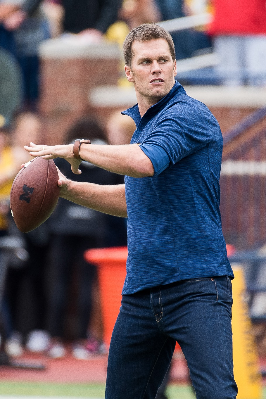 Tom Brady throwing to Jim Harbaugh before w:2016 Michigan Wolverines football team's 45-28 victory over w:2016 Colorado Buffaloes football team at Michigan Stadium on September 17, 2016.